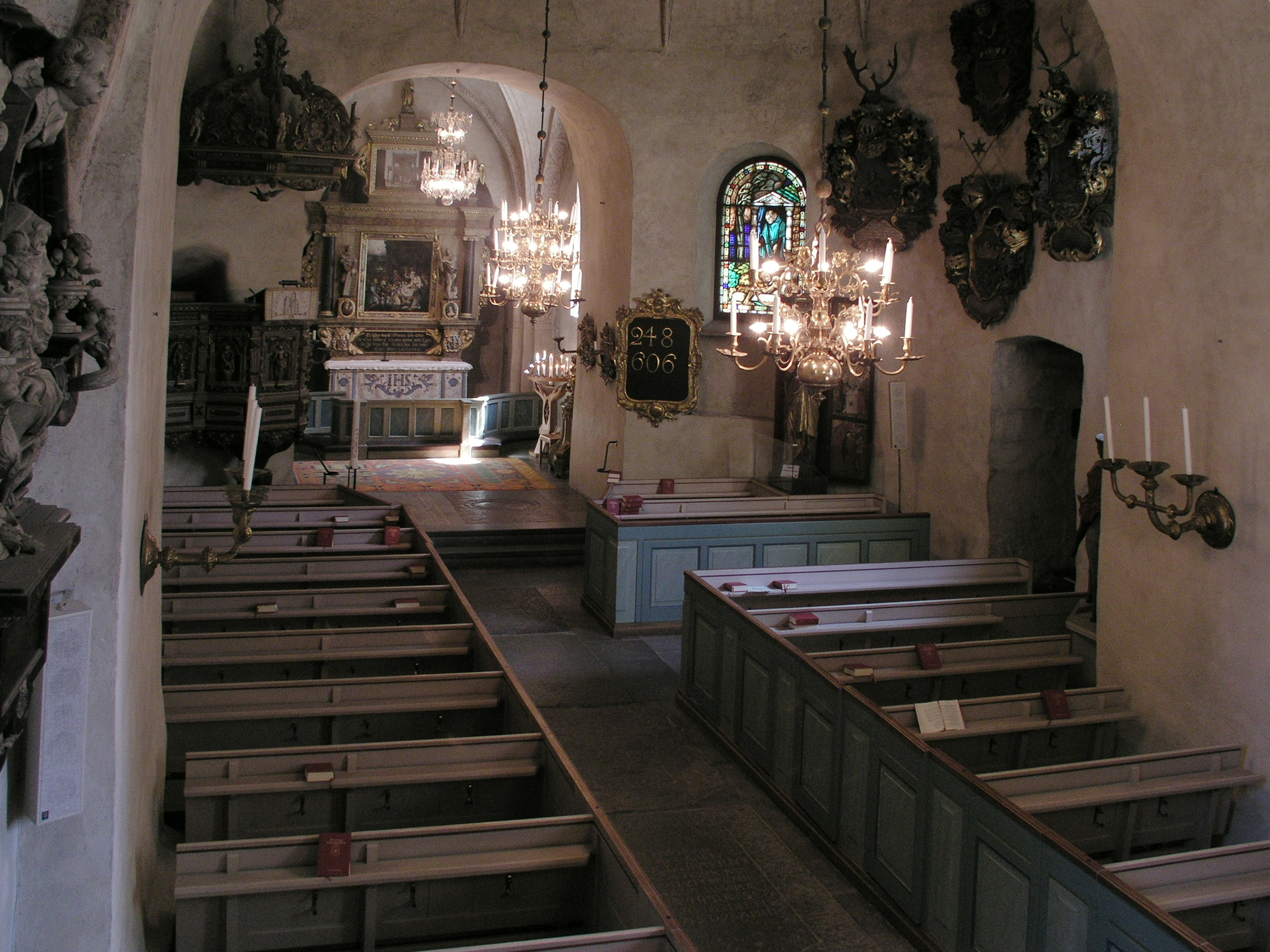 Solna Kyrka / Solna Church. Stockholms stift, Solna kommun.